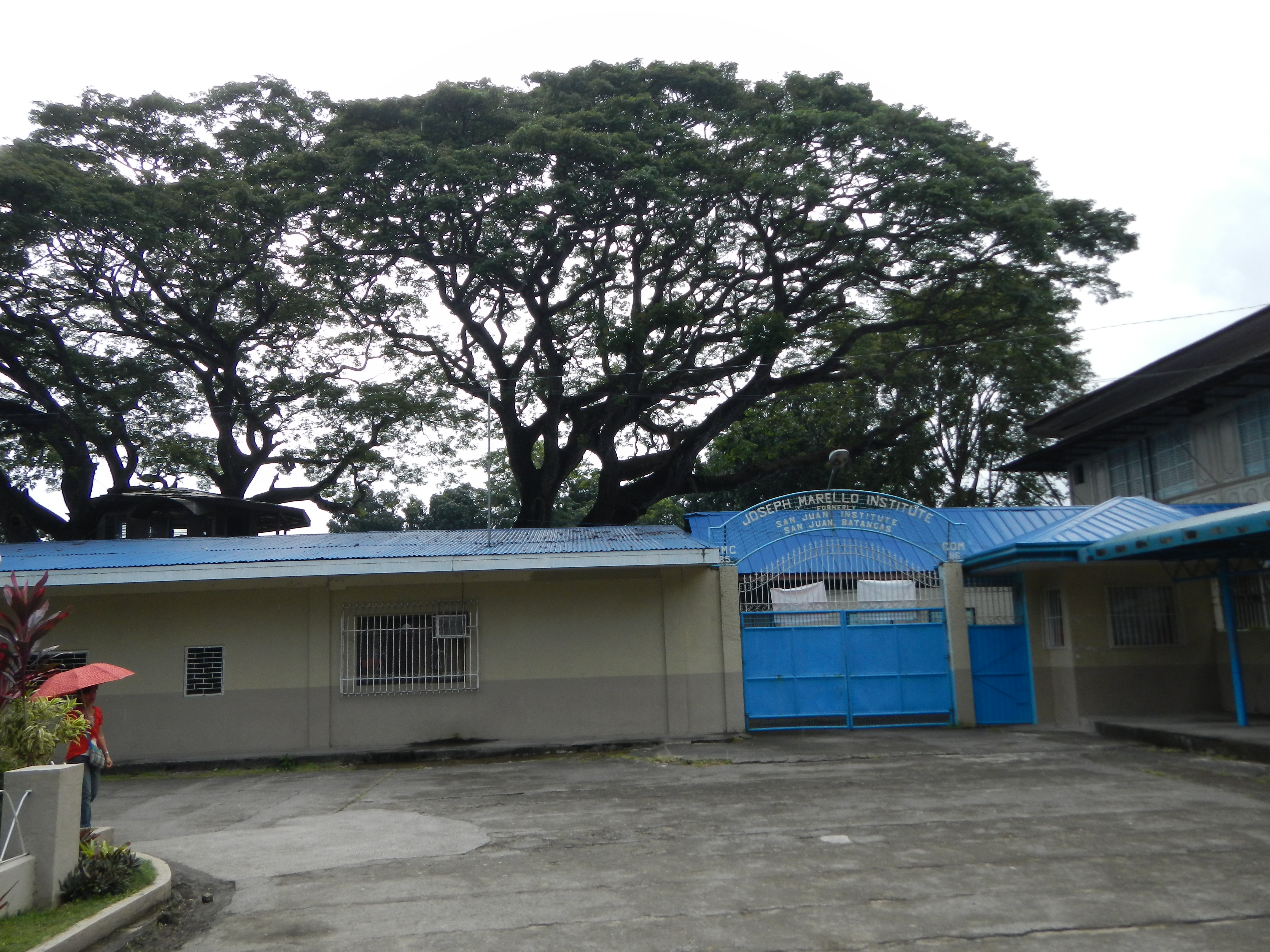 Upload Wizard photos of - Saint John Nepomucene Parish Church of San Juan, Batangas Vicariate IV: Vicariate of Saint Joseph or San Juan Nepomuceno Parish Church of San Juan, which belongs to the Roman Catholic Archdiocese of Lipa [1] [2] [3] - San Juan, Batangas[4] (a first class municipality on the Philippines in the province of Batangas; the 2010 census, it has a population of 94,291 people politically subdivided into 42 barangaysWebsite attraction is Acautico Resort in Laiya [5]): the Church facade, the interior, the surroundings, the Patio or Church Plaza, in this Heritage, Landmark, Tourist spot of this Town and the St. Joseph Marello Institute, formerly San Juan Institute.